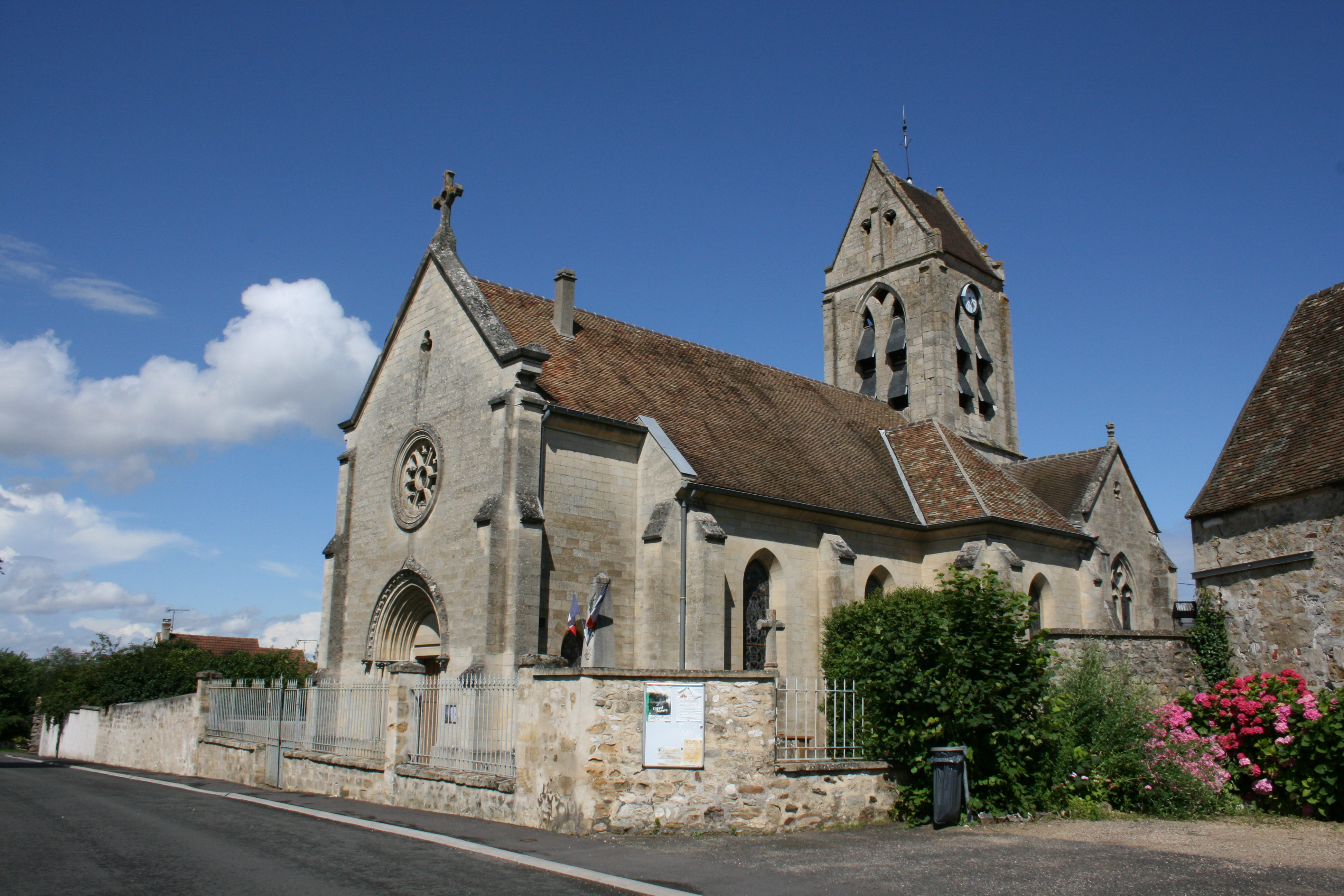 Church Saont-Pierre of Puiseux-Pontoise, in french Vexin (Val d'Oise). Built at XIIIe, and modified in 1893